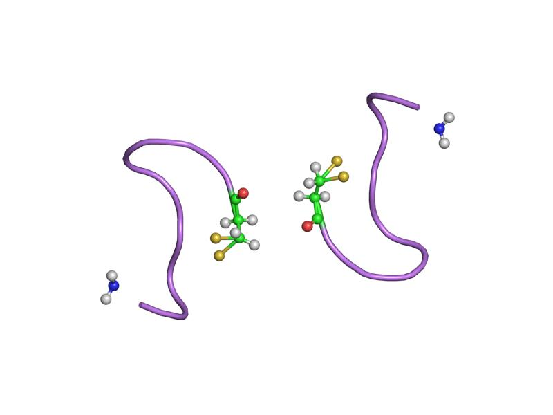 Cartoon representation of the molecular structure of protein registered with 1xy1 code.